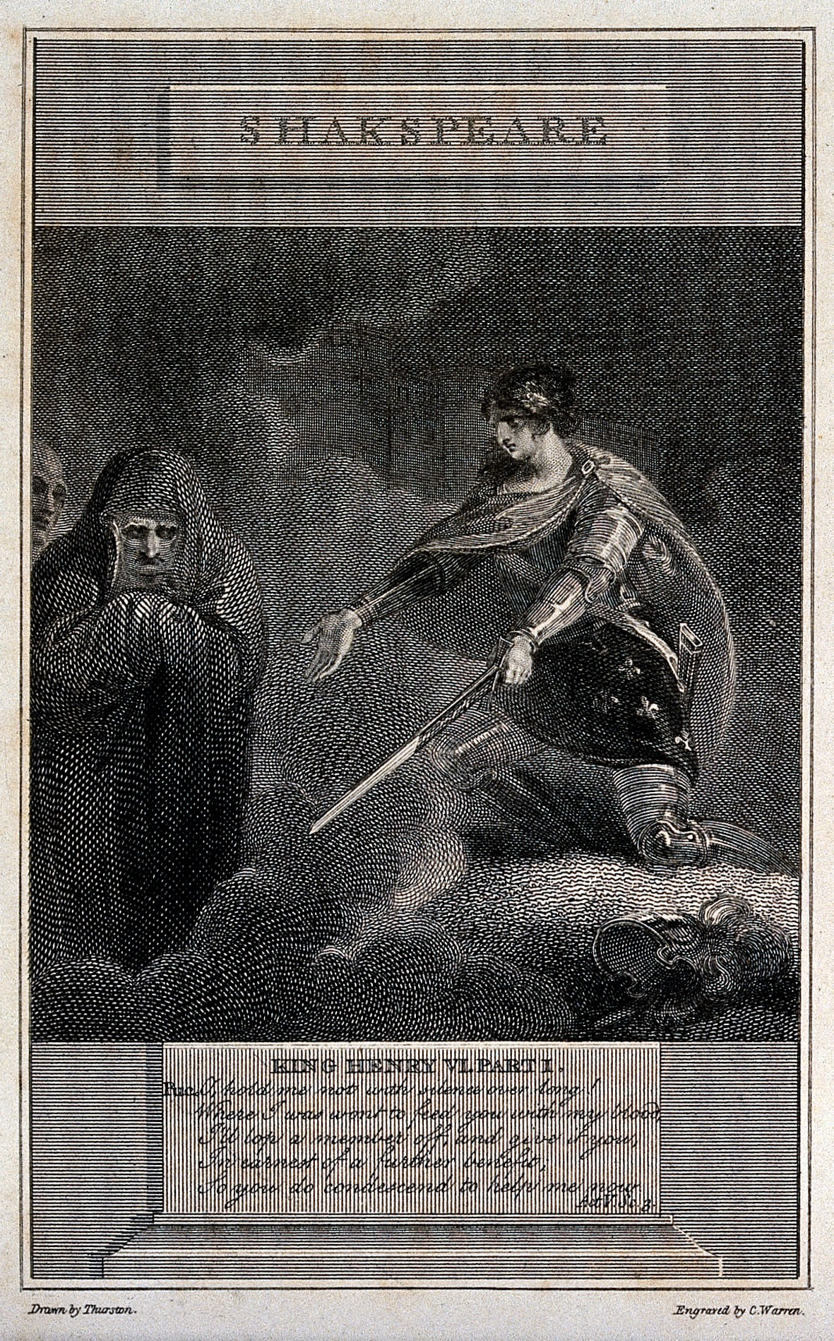 Joan of Arc conjures demons in Shakespeare's 'Henry VI'; but the demons are uncompliant; one hangs his head on the left. Engraving by C. Warren, 1805, after J. Thurston. Iconographic Collections Keywords: John Thurston; Charles Turner Warren; Jeanne d'Arc; William Shakespeare